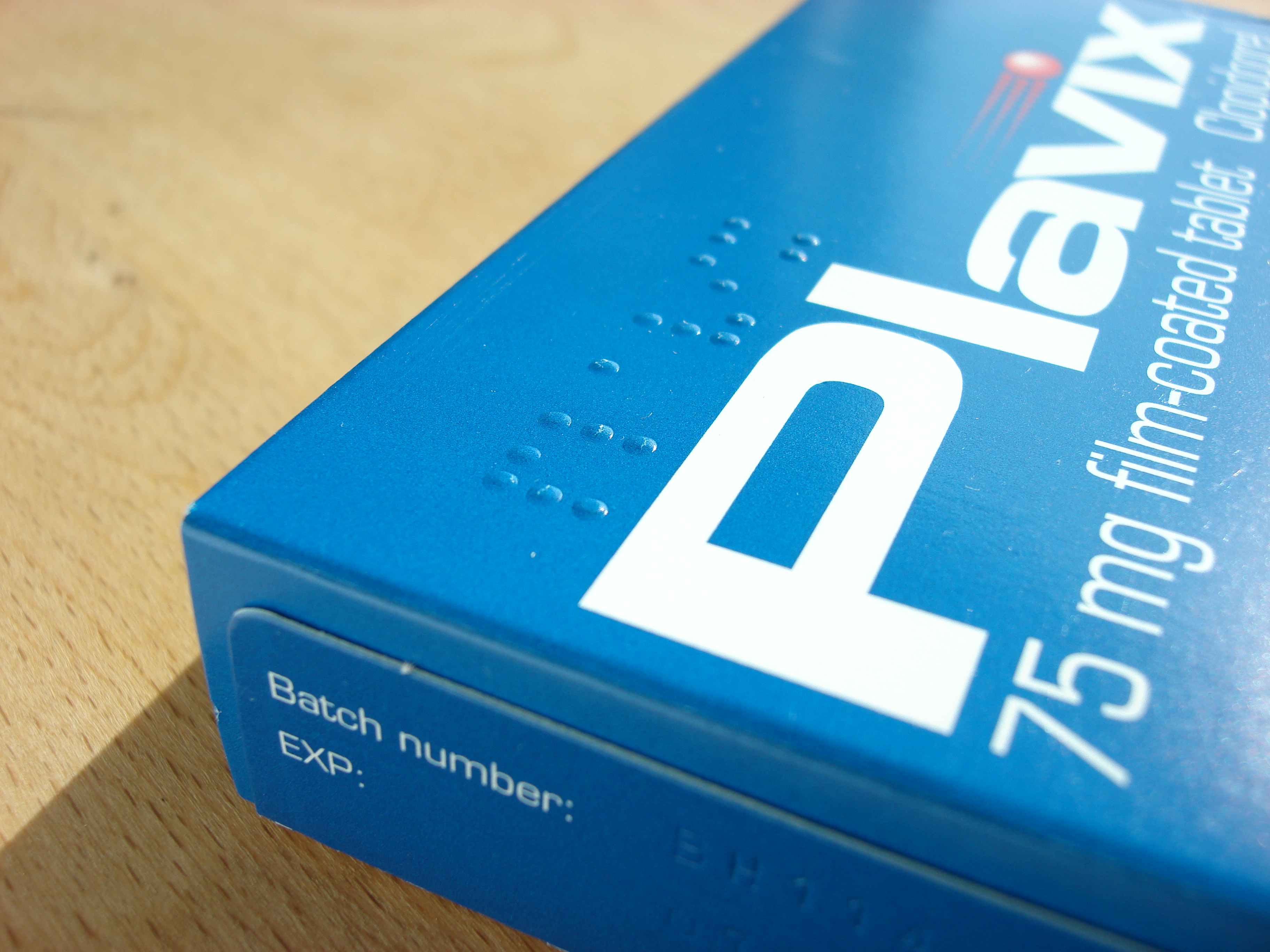 Braille on a box of tablets